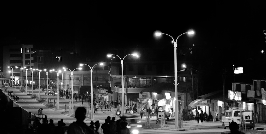 Main Street, Adigrat, Ethiopia